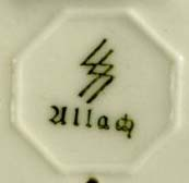 Photo of Allach Maker's mark.